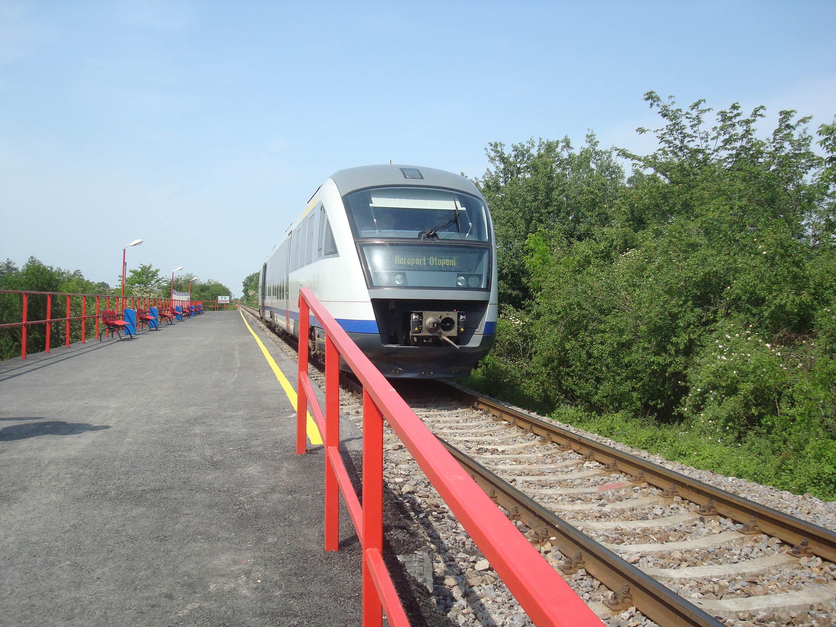 Sageata albastra in Balotesti, Romania